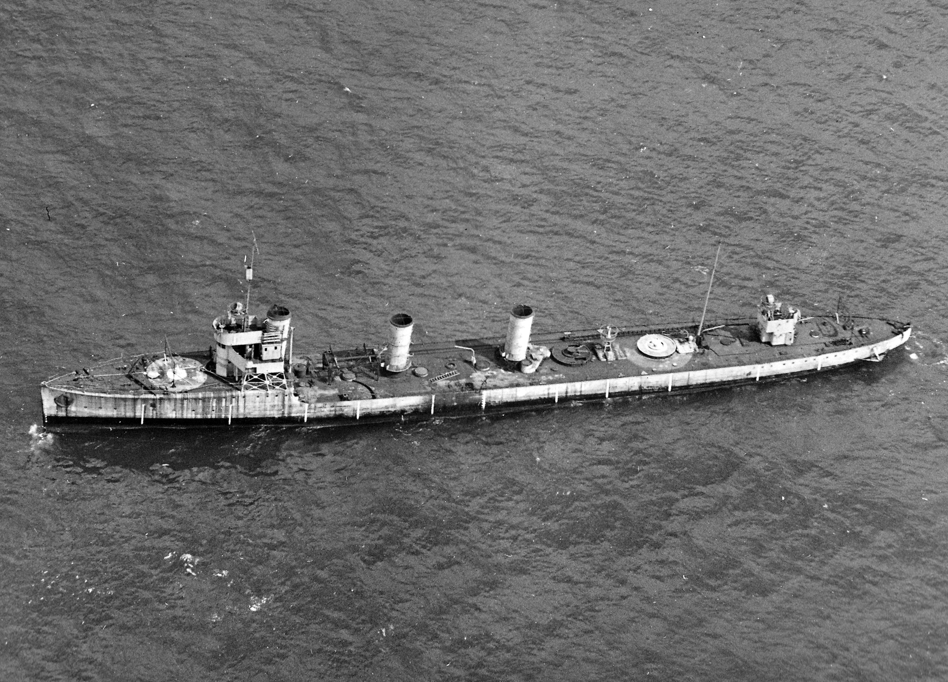 The former German torpedo boat SMS G 102 as a target ship during bombing tests conducted by U.S. Army and Navy aircraft off the Virginia Capes during July 1921. She was sunk on 13 July 1921.